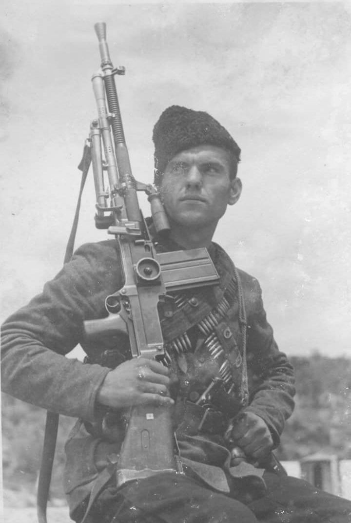 My grandfather David Jovanić, Chetnik of Dinara division armed with M37,domestically produced variant of ZB vz 30.